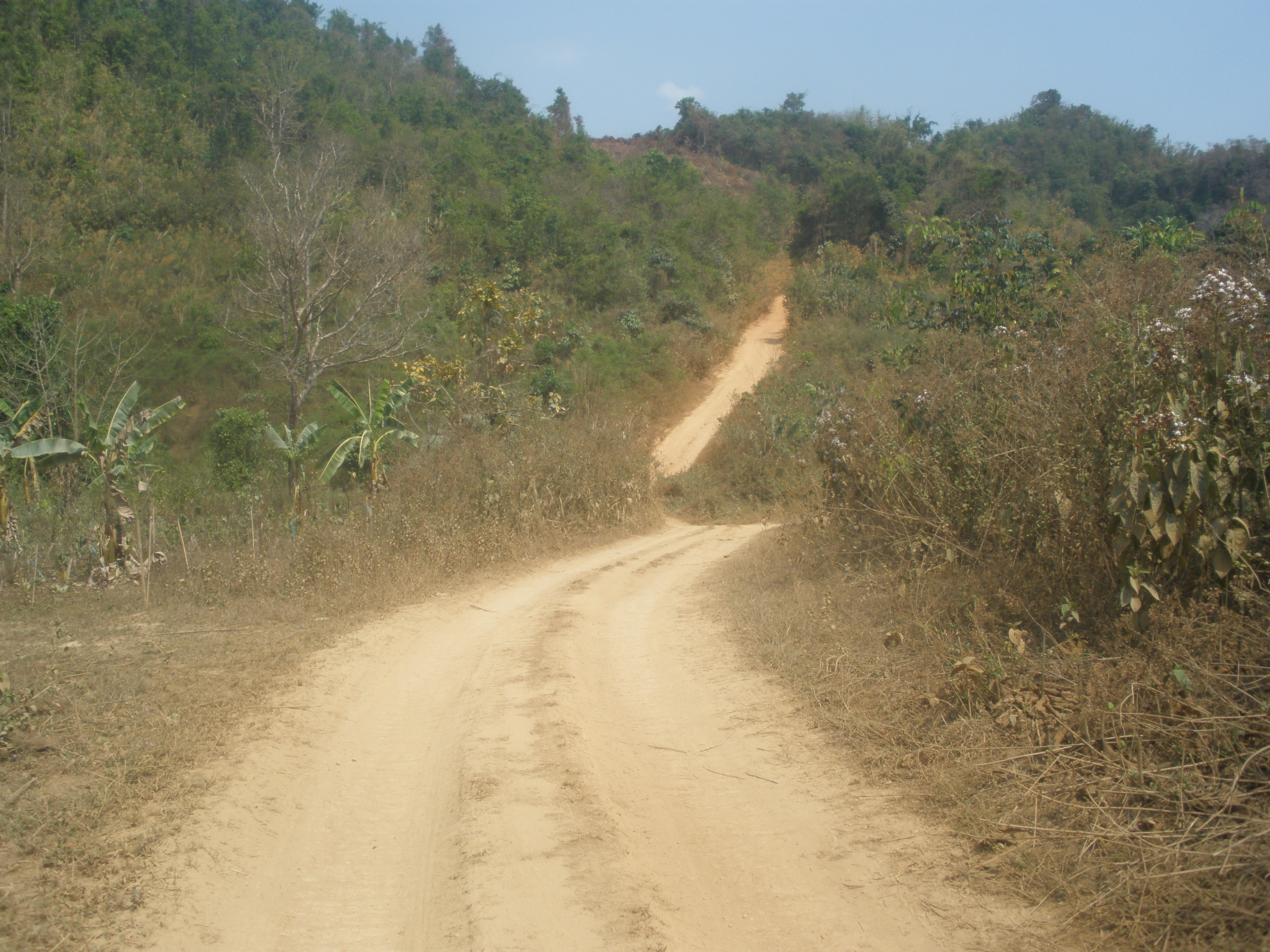 The road leading out of Laytongku Village;Other information: I took this photo with my Olympus digital camera in situ.